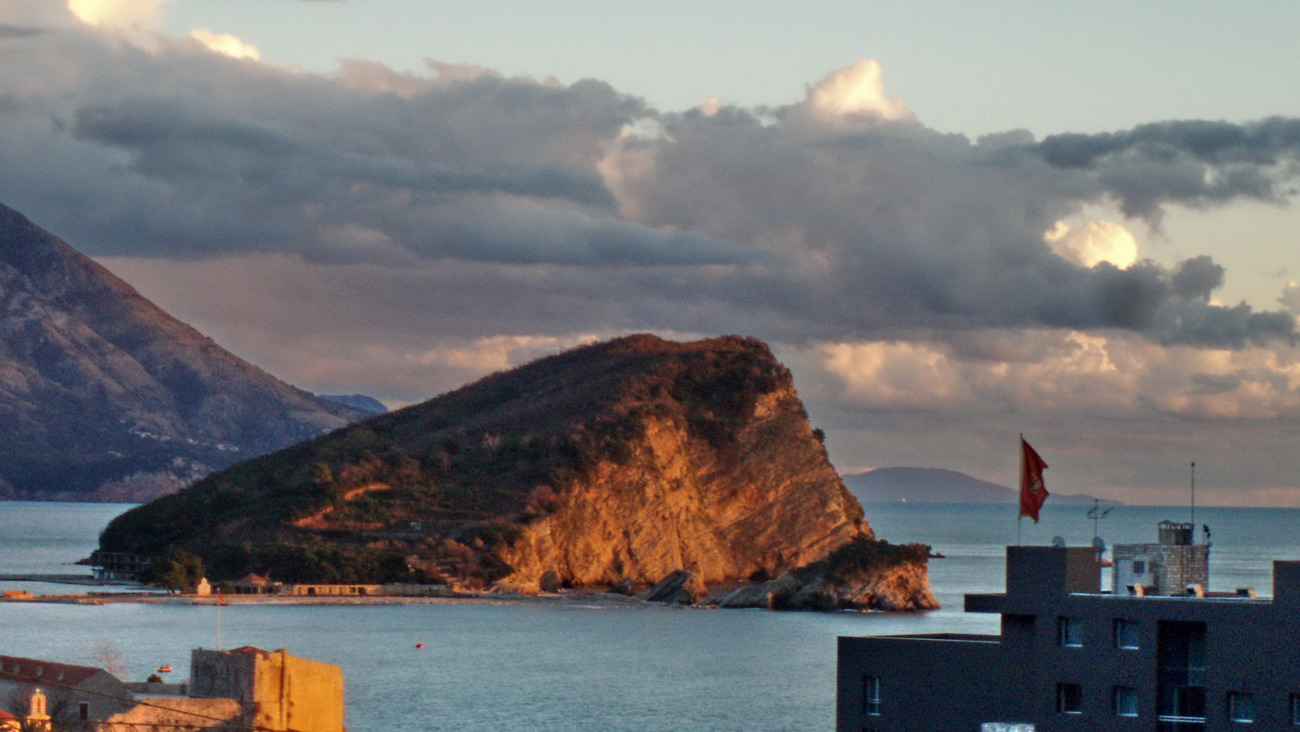 St. Nicolas island (december)